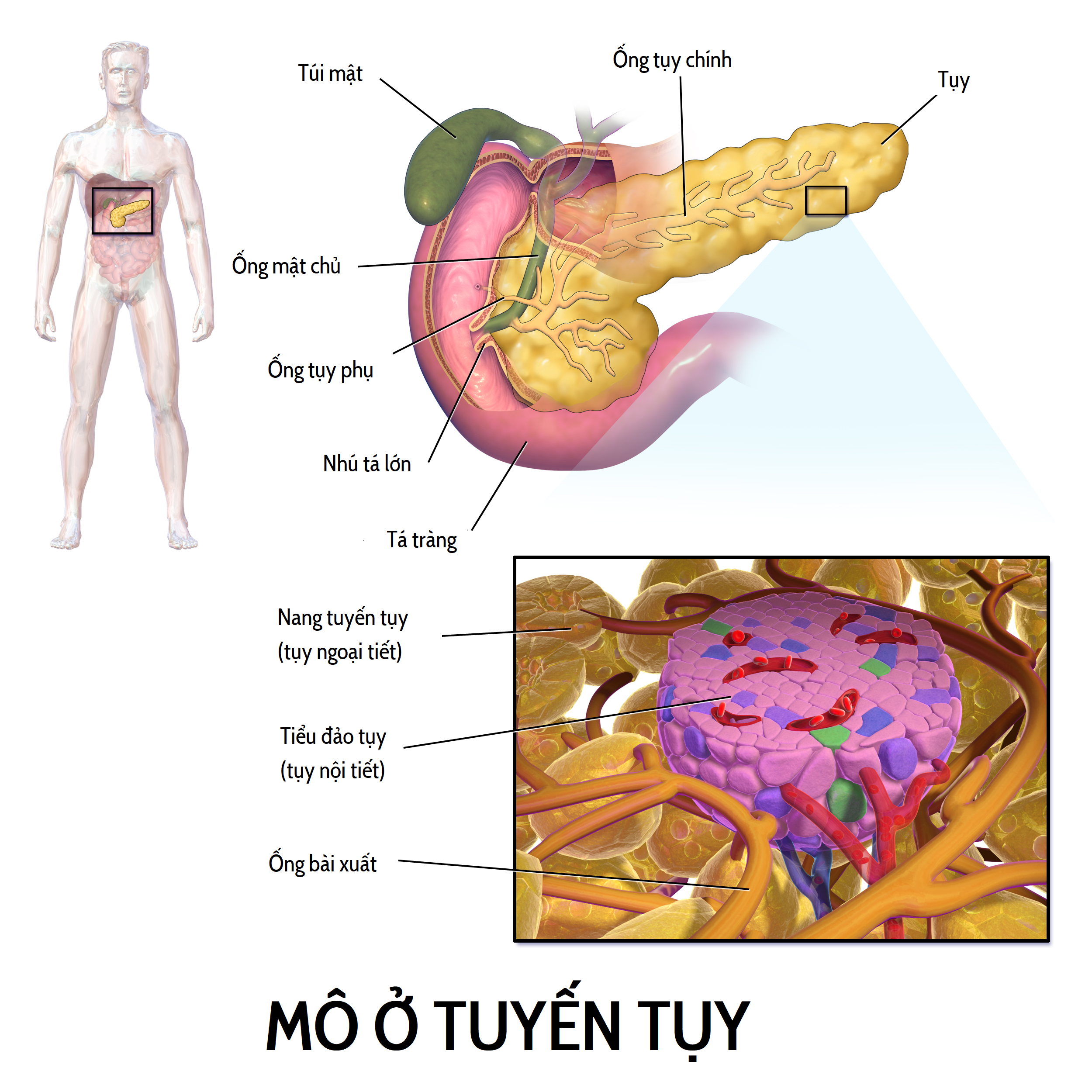 Pancreatic Tissue. See a full animation of this medical topic.